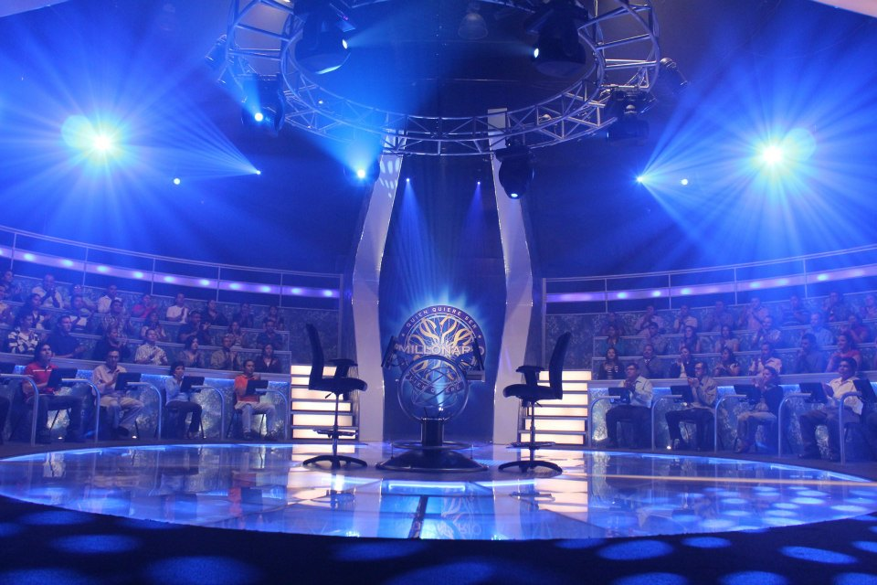 TV Studio of ¿Quién quiere ser millonario? (Who wants to be a millionaire?), produced and broadcast by Telecorporacion Salvadoreña.